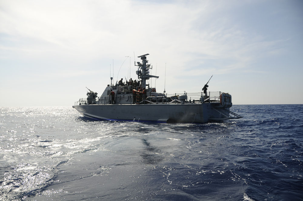 Agusut 11, 2009 Active efforts by the Israeli Navy, has stemmed the flow of hundreds of tons of advanced missiles and other weaponry to Hamas and other terror organizations from Gaza who seek to harm Israeli civilians. Featured as "Photo of the Day" on June 27, 2011.